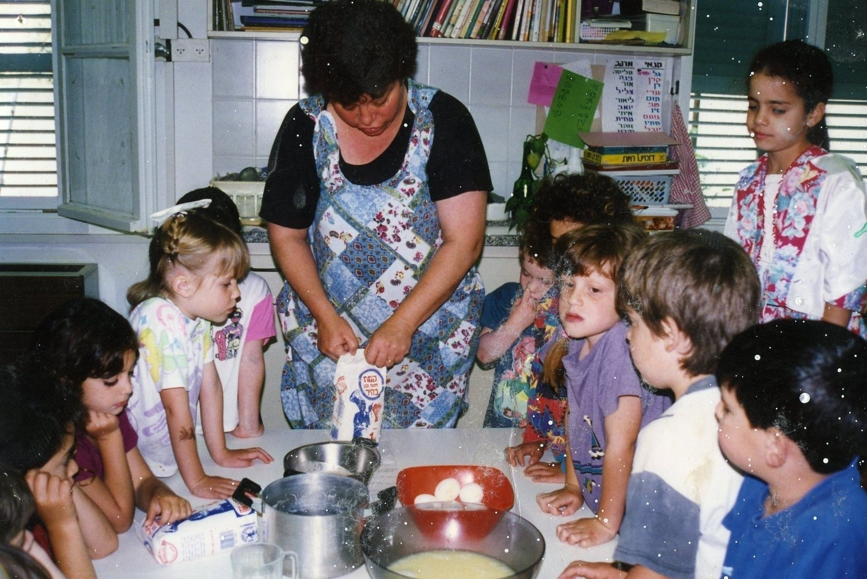 Friday kibbutz education is very significant. Therapist with me two baking with the children apply to sit